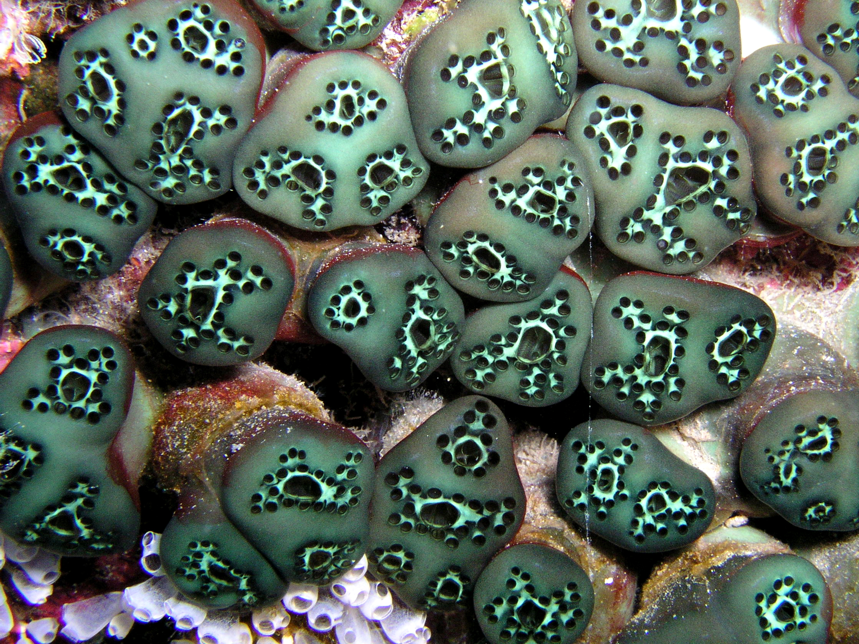 A colony of green ascidians from East Timor.